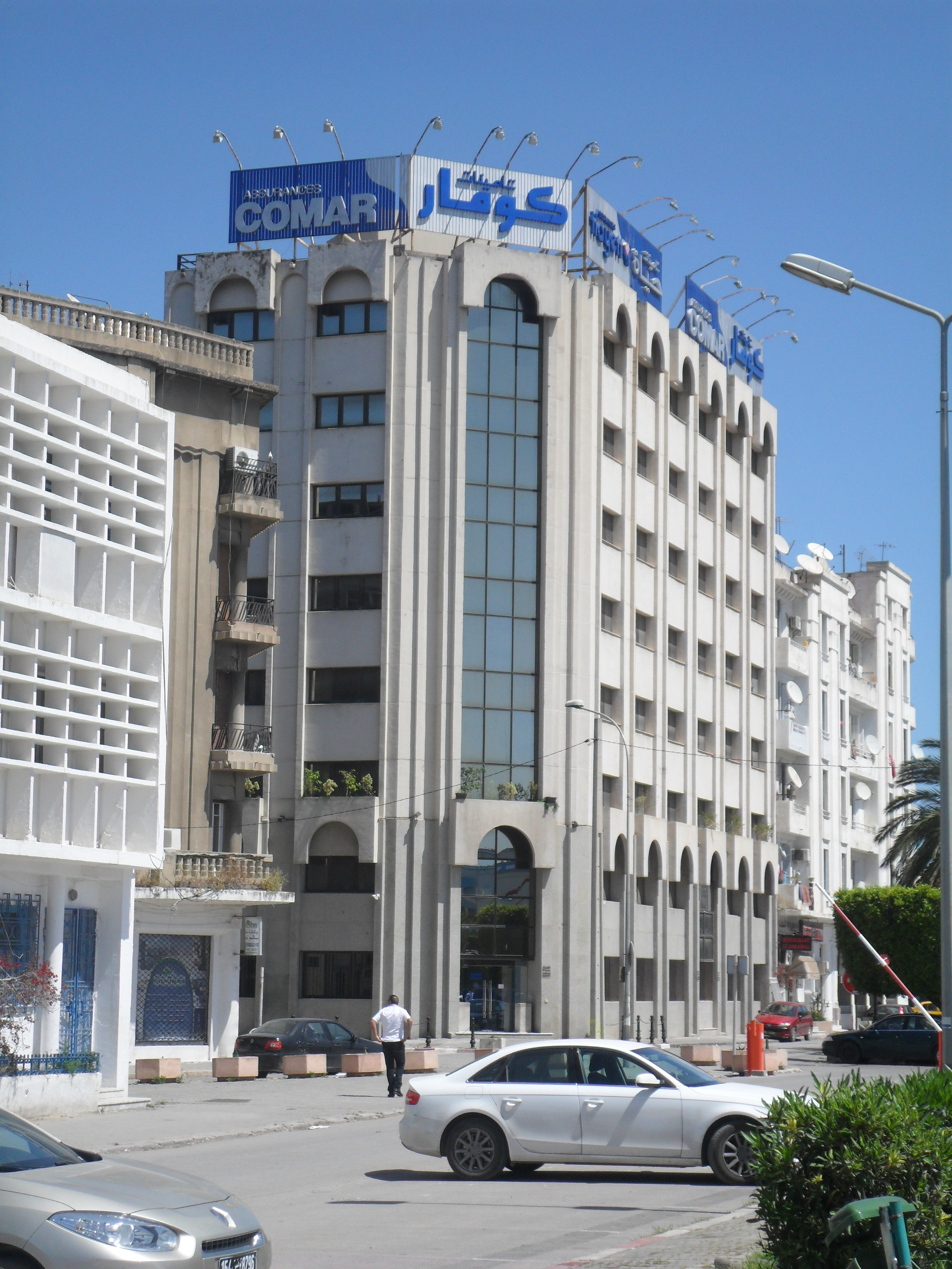 Comar Insurance Headquarters